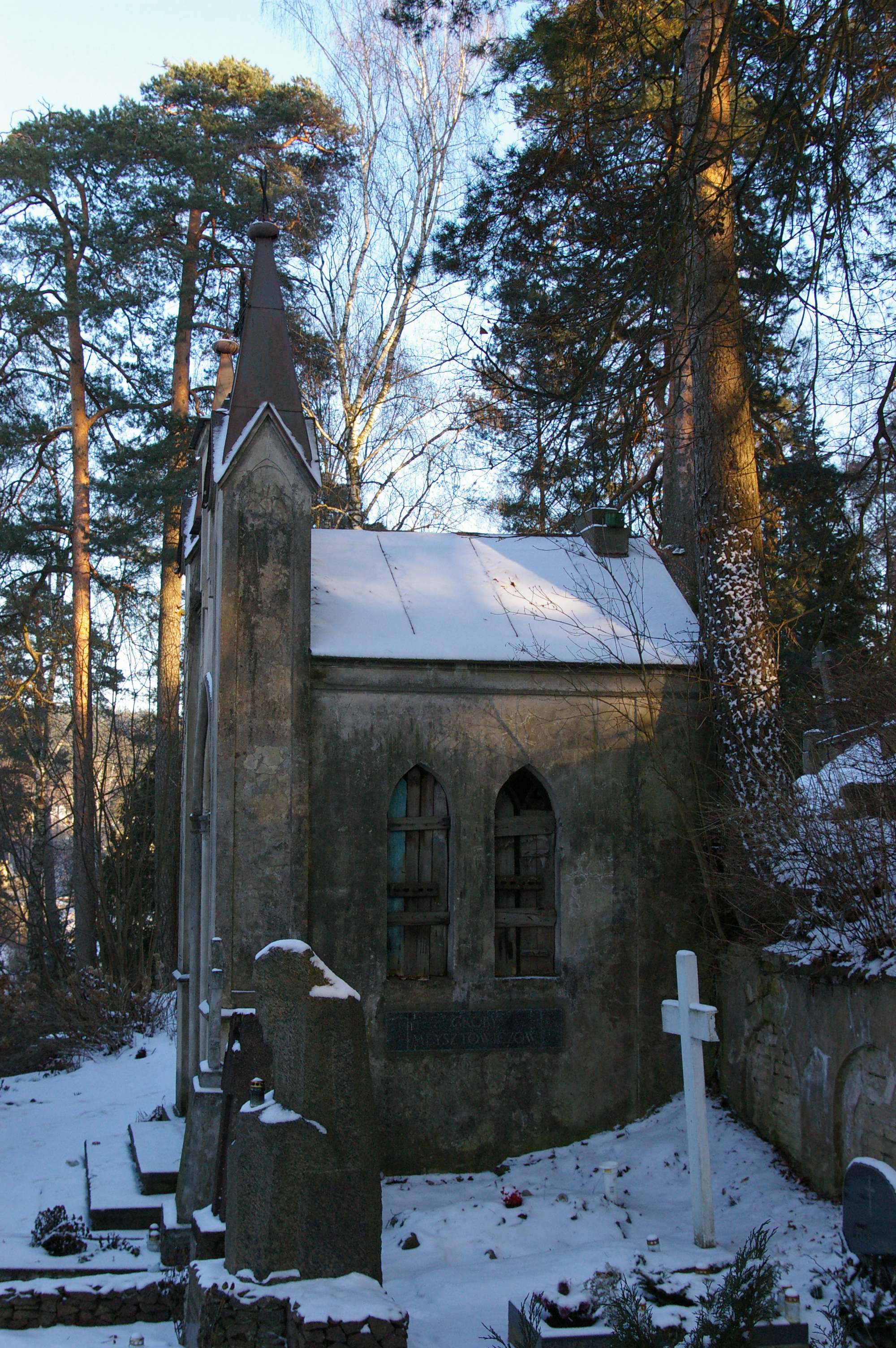 Chapel of Mištavičių family in Sunny cemetery, Antakalnis, Vilnius, Lithuania.